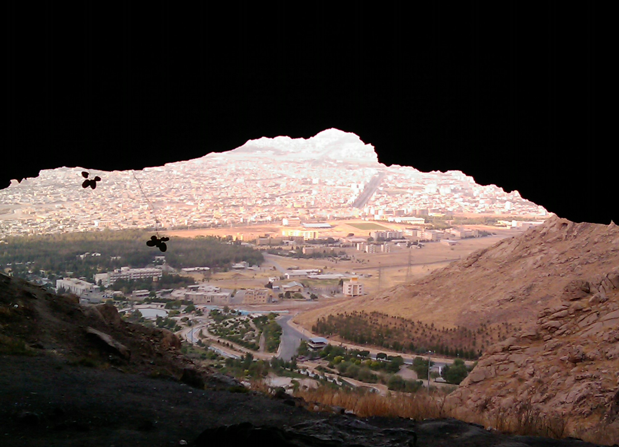 DO Ashkaft cave, in north of kermanshah city, west of iran,Location Neanderthals,inside big cave, infront of cave is kermanshah city